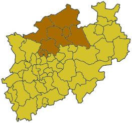 Location of the Münster district in North Rhine-Westphalia, Germany